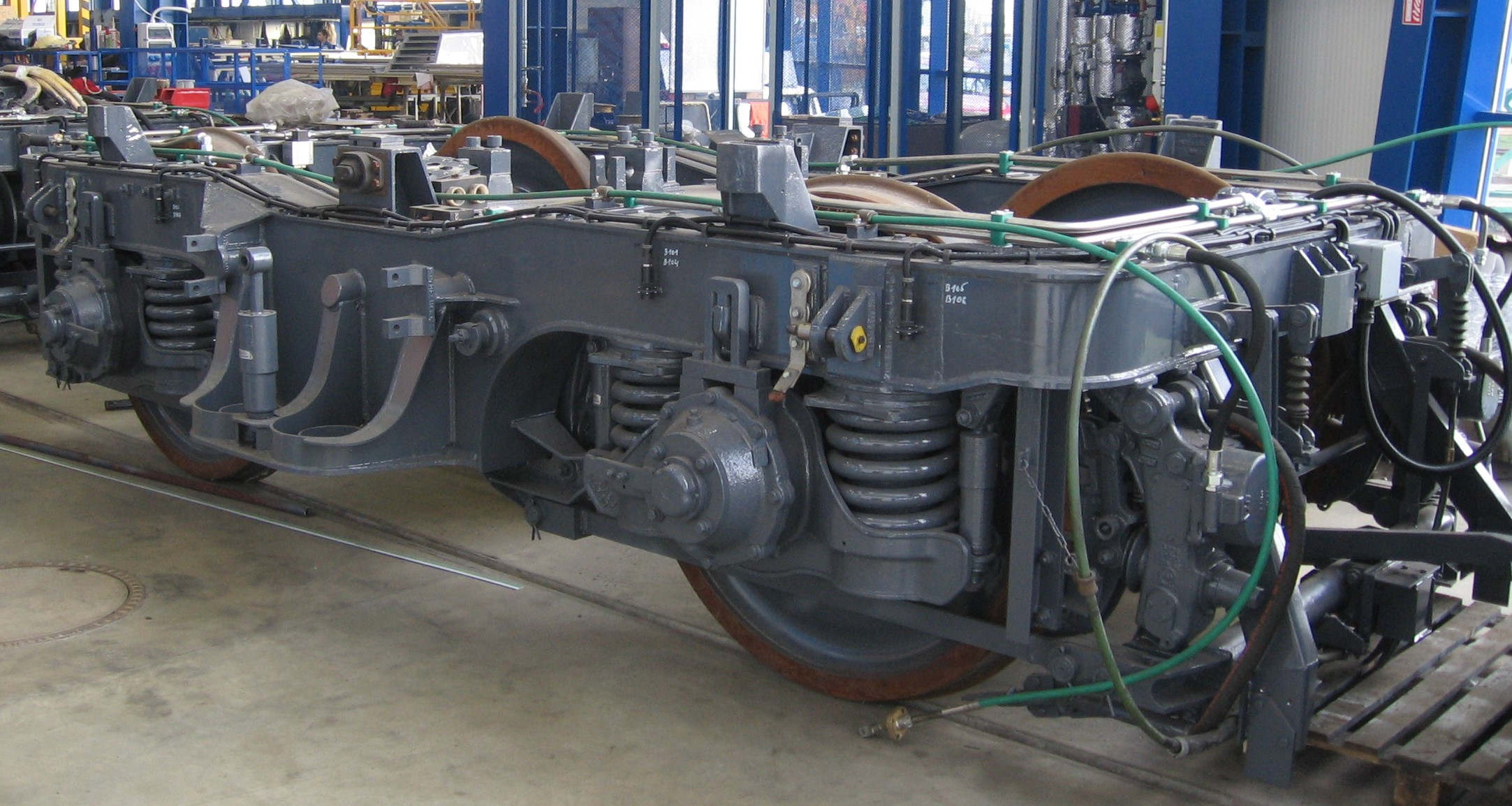 Bogie of 1203 SNCB